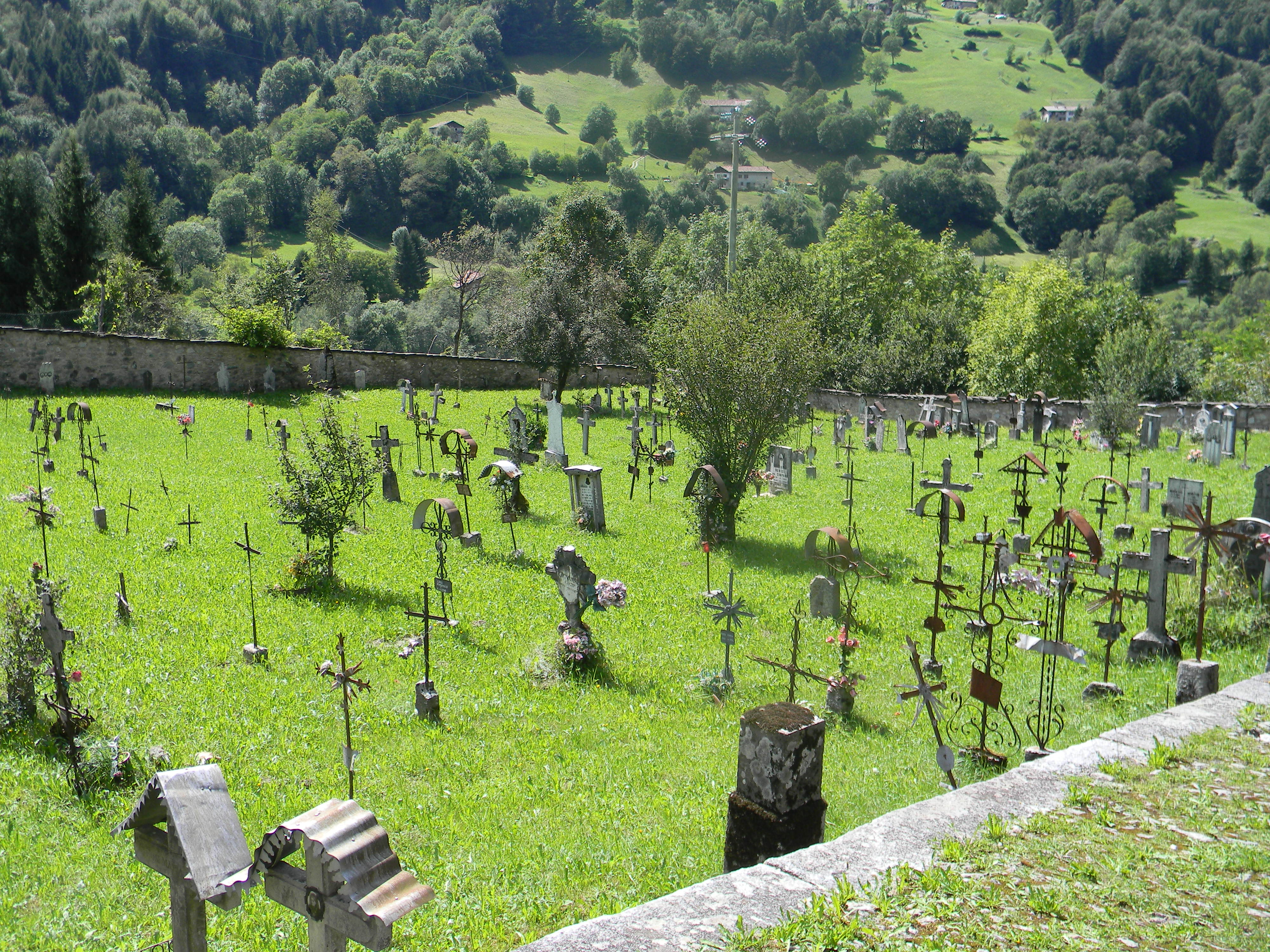 Old graveyard of Bagolino, Italy.